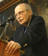 Otto Habsburg speaks.